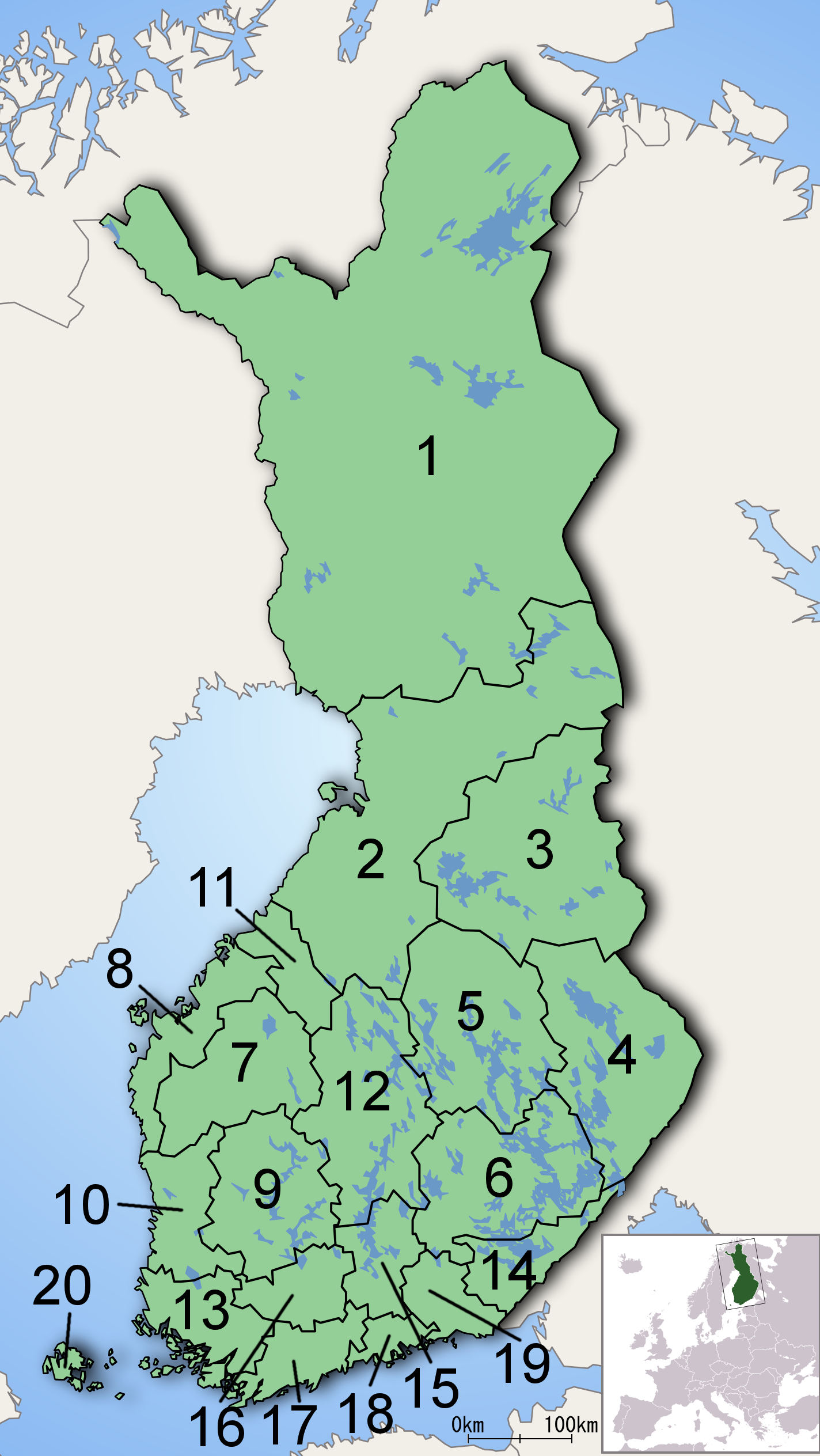 The regions of Finland (1996–2010) with its numbers; used for reference